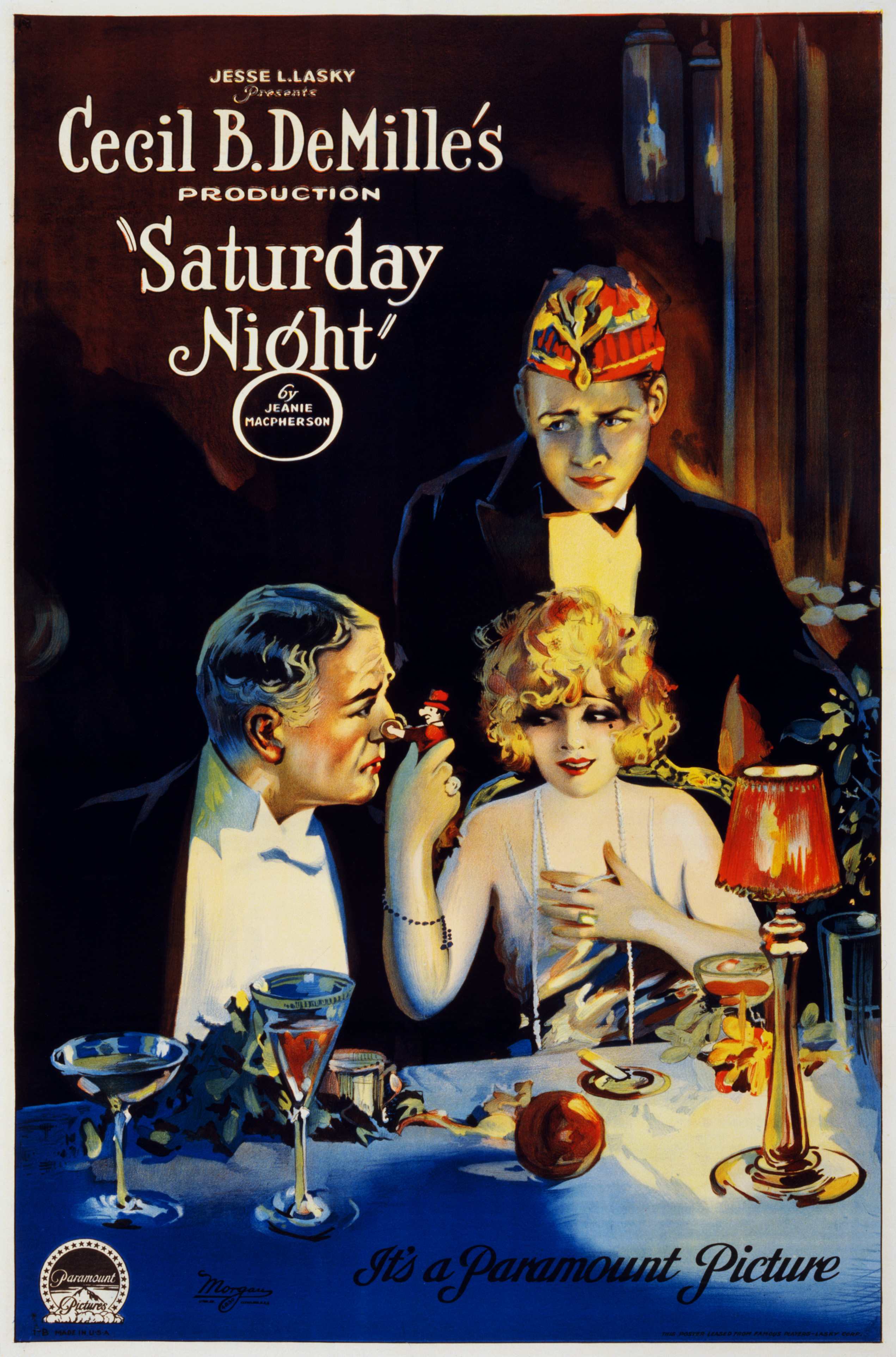 Jesse L. Lasky presents Cecil B. DeMille's production Saturday Night (1922) by Jeanie Macpherson. It is a Paramount Picture. Motion picture poster shows a flirtatious young woman (Leatrice Joy) and an older man (Jack Mower) seated at a restaurant or nightclub table. Behind the young woman stands a worried looking young man (Conrad Nagel) in a cap.